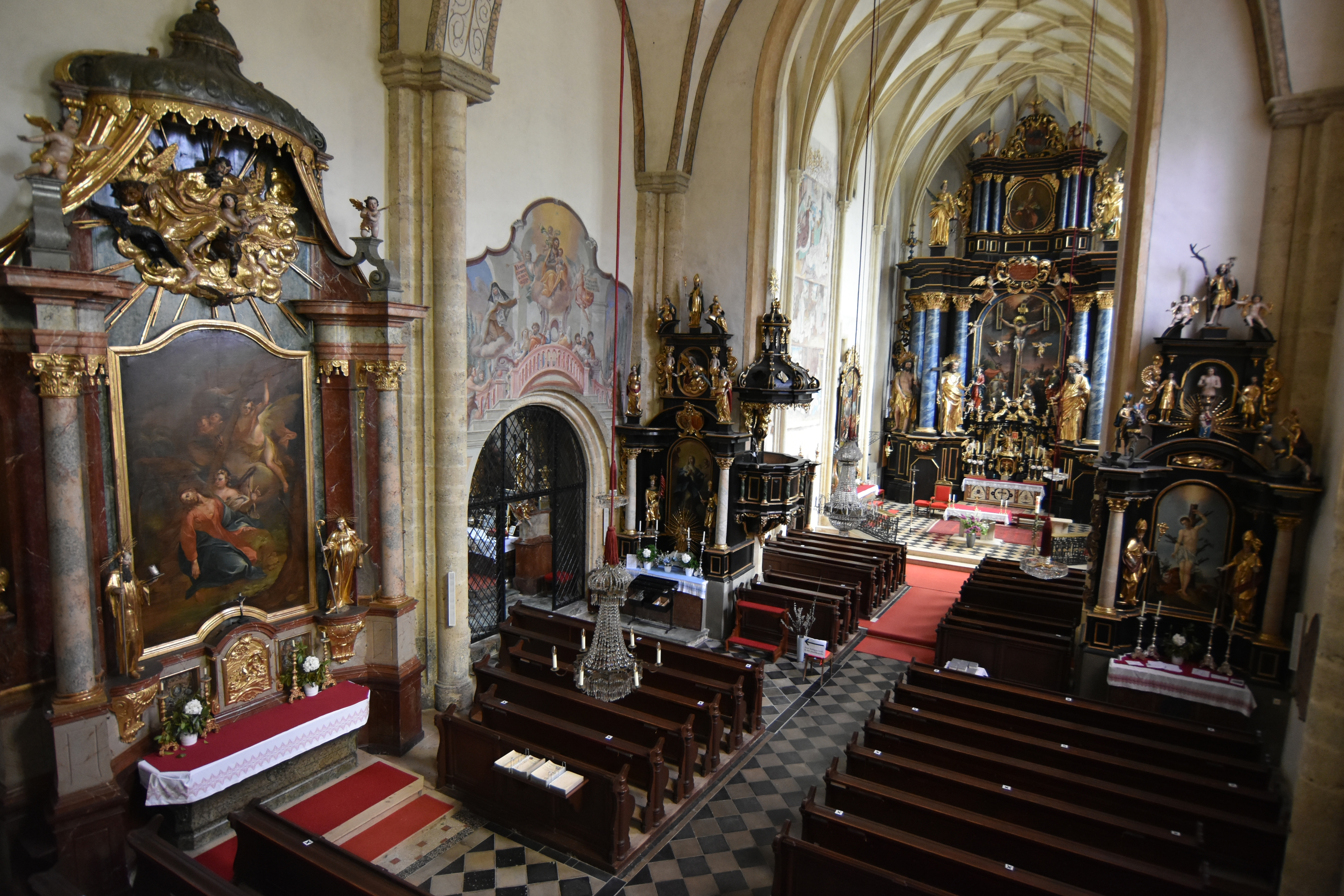 Church Pfarrkirche Mautern Interior